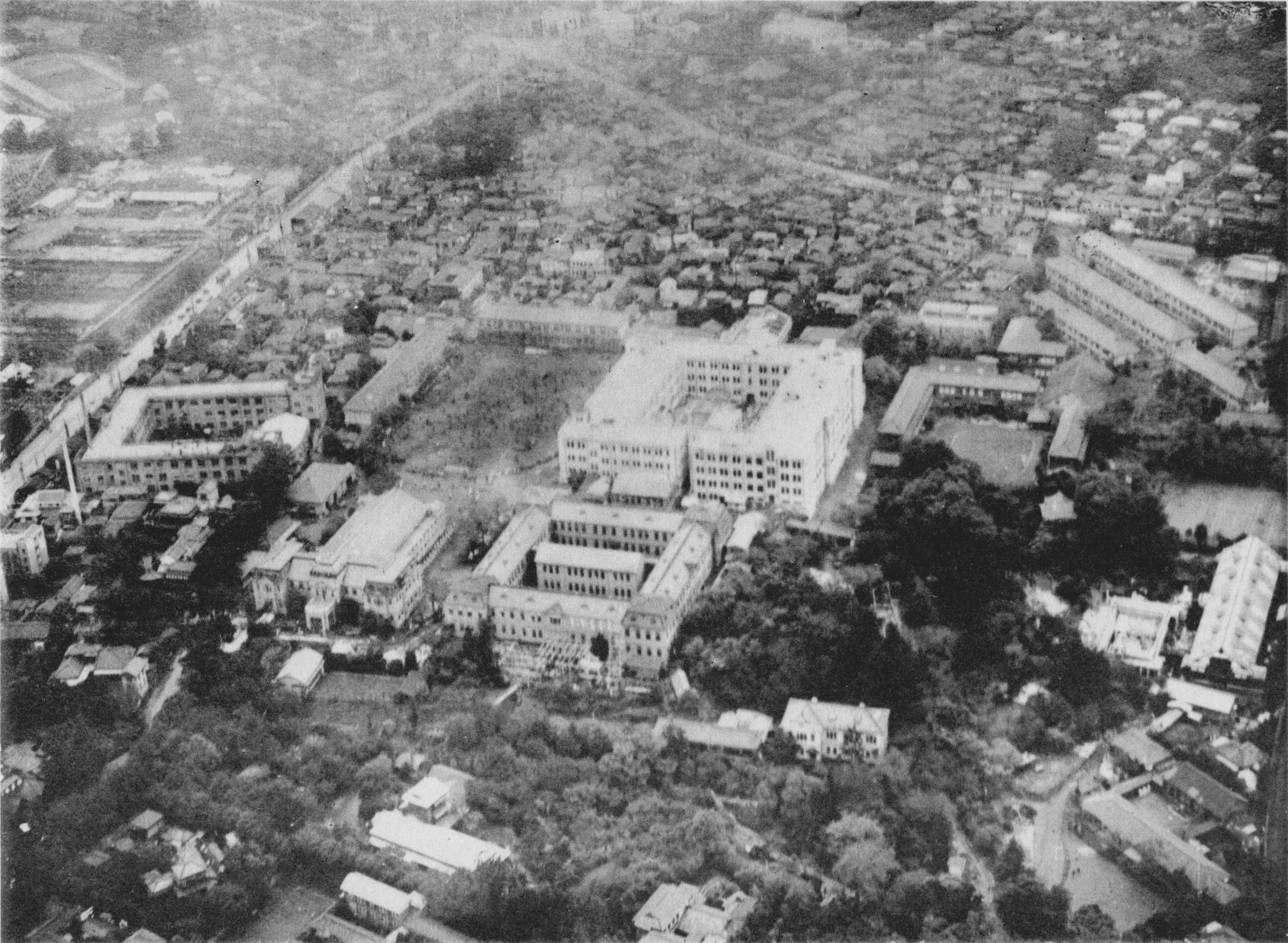 Panorama of the Tokyo University of Literature and Science.